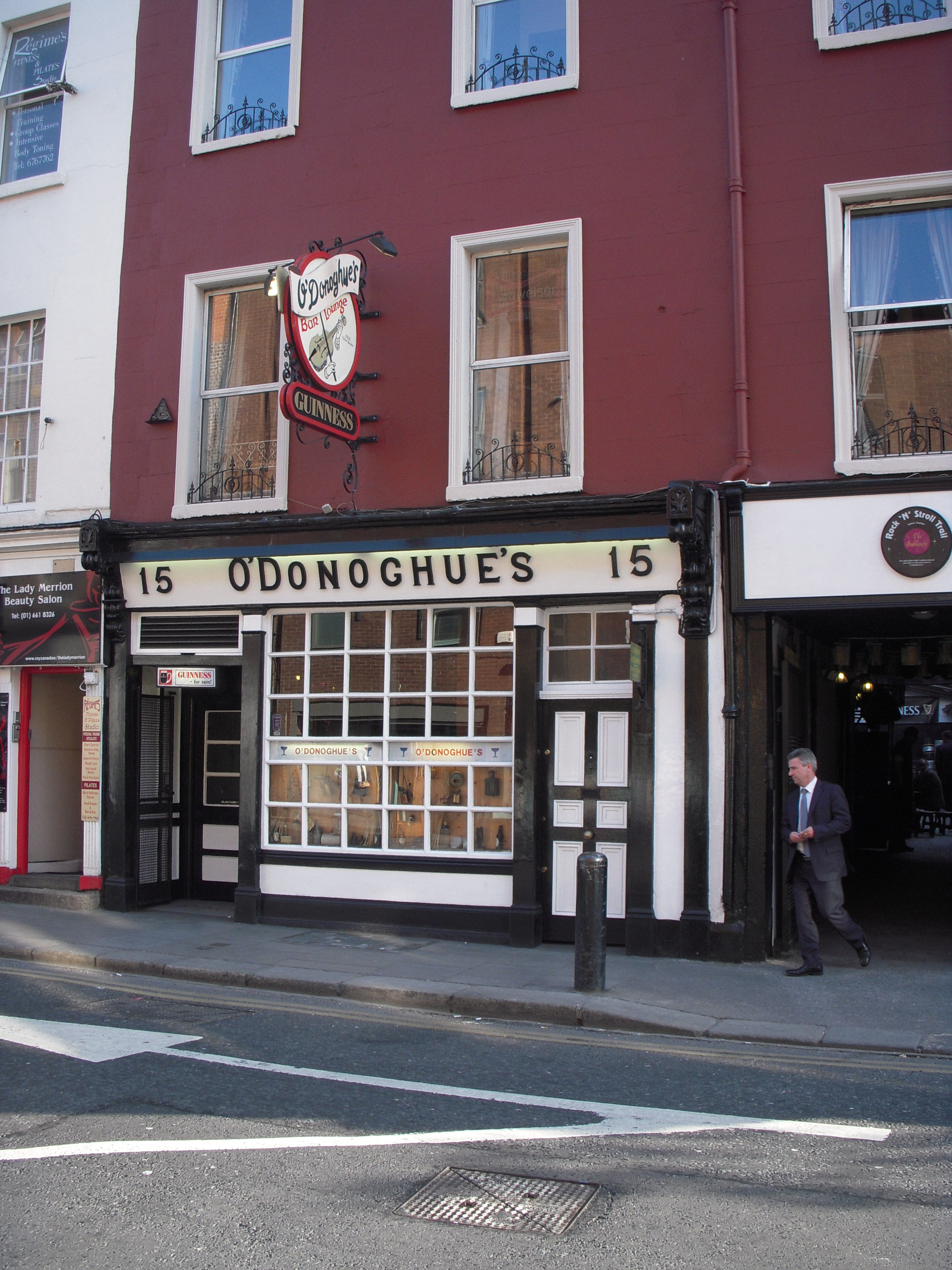 O'Donoghue's in Dublin, birthplace for The Dubliners, april 2011